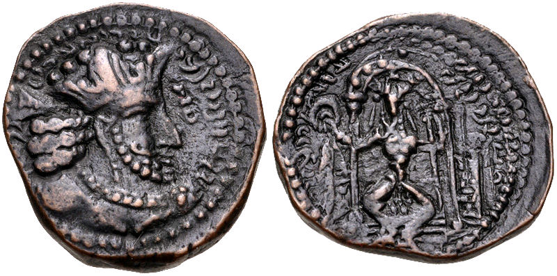 KUSHANO-SASANIANS Ardashir I Kushanshah Circa AD 230-250. Æ Chalkous (18 mm, 3.45 g, 9h). Merv mint. Crowned bust right / Anahit seated facing under domed canopy, holding wreath and scepter.